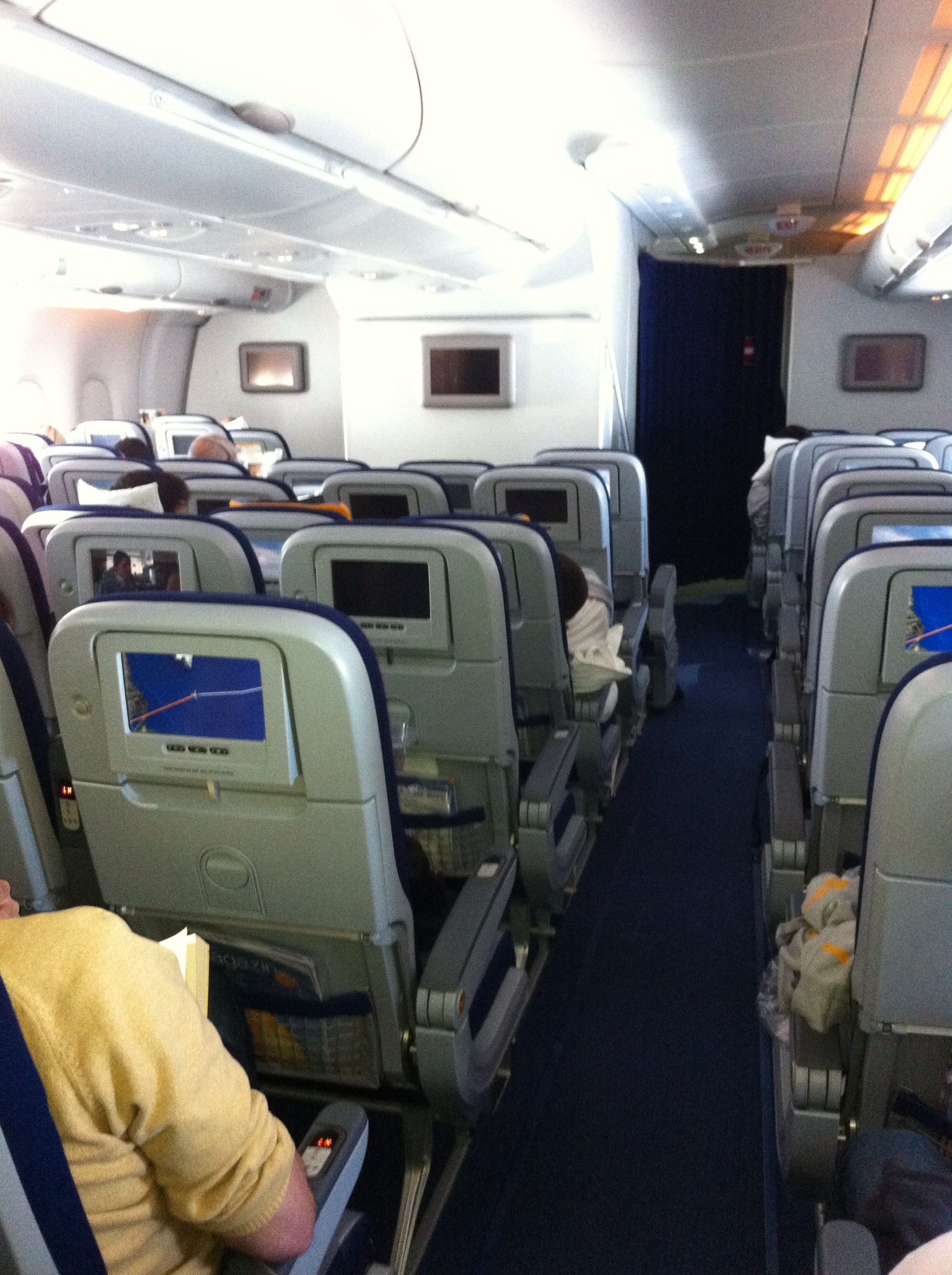 Airbus A380 of Lufthansa, economy class cabin 3-4-3. This photo shows the interior of an A380 cabin, as evidenced by the non-articulating overhead bins, semi-circular exit signs, wave-shaped cabin ceiling, and non-indented sidewalls (another example here), by comparison the 747-8 interior has articulating overhead bins that retract into the ceiling, rectangular exit signs, arch-curved cabin ceiling, and window indented sidewalls (shown here)